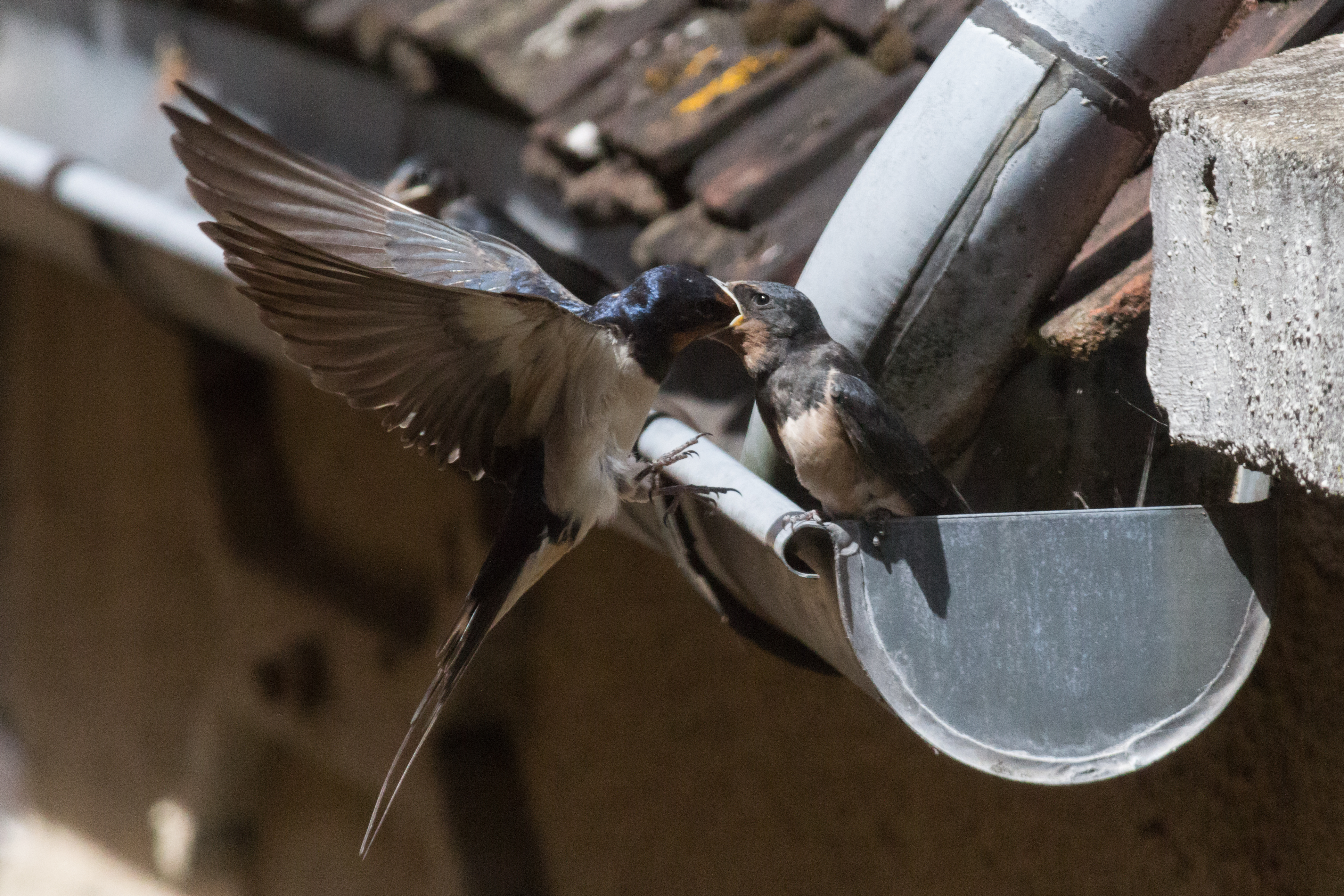 An adult Hirundo rustica feeding a young bird.